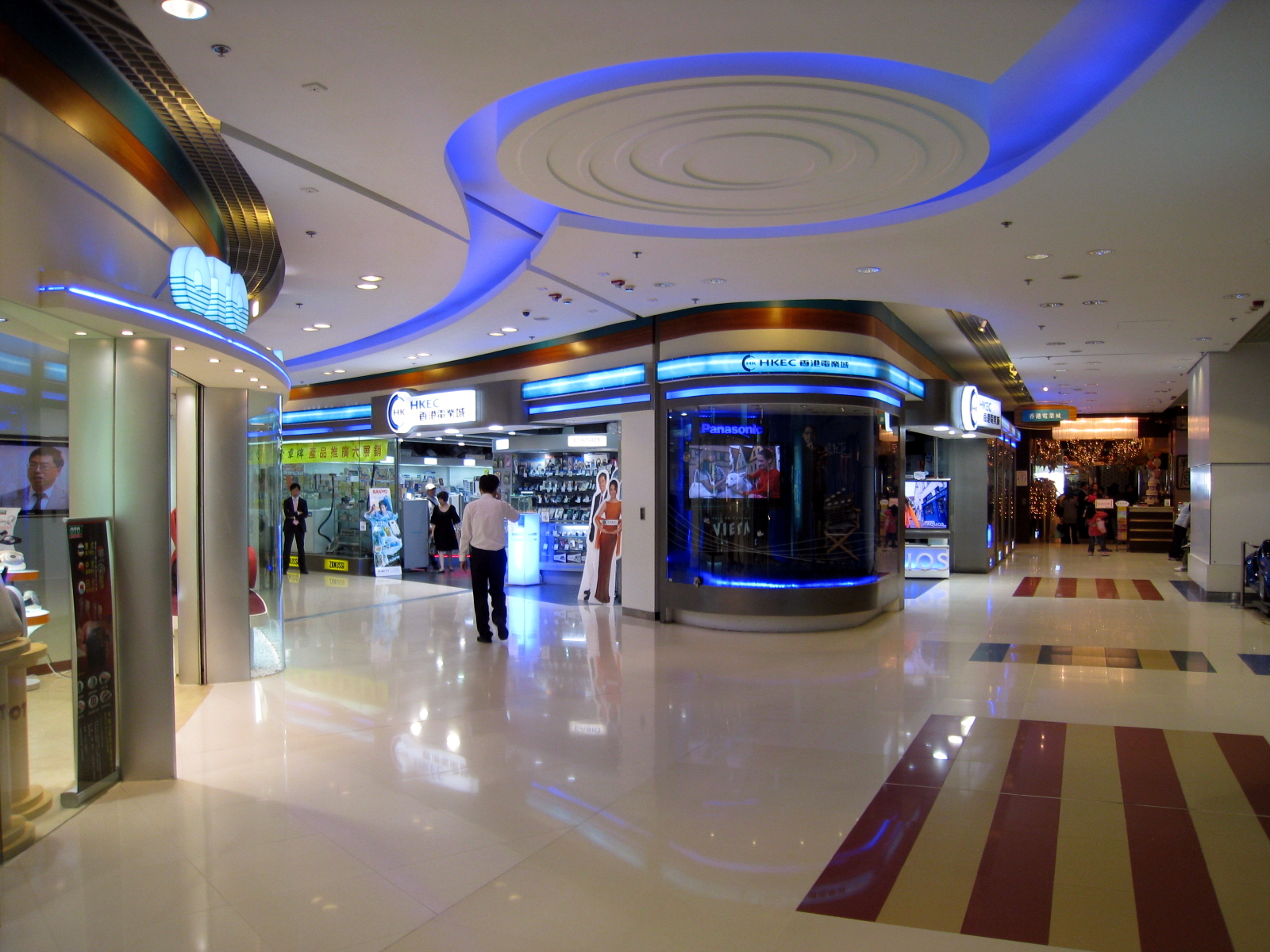 Maritime Square, Tsing Yi Station, Hong Kong